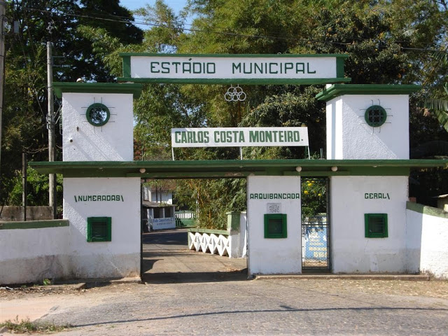 Esportiva3